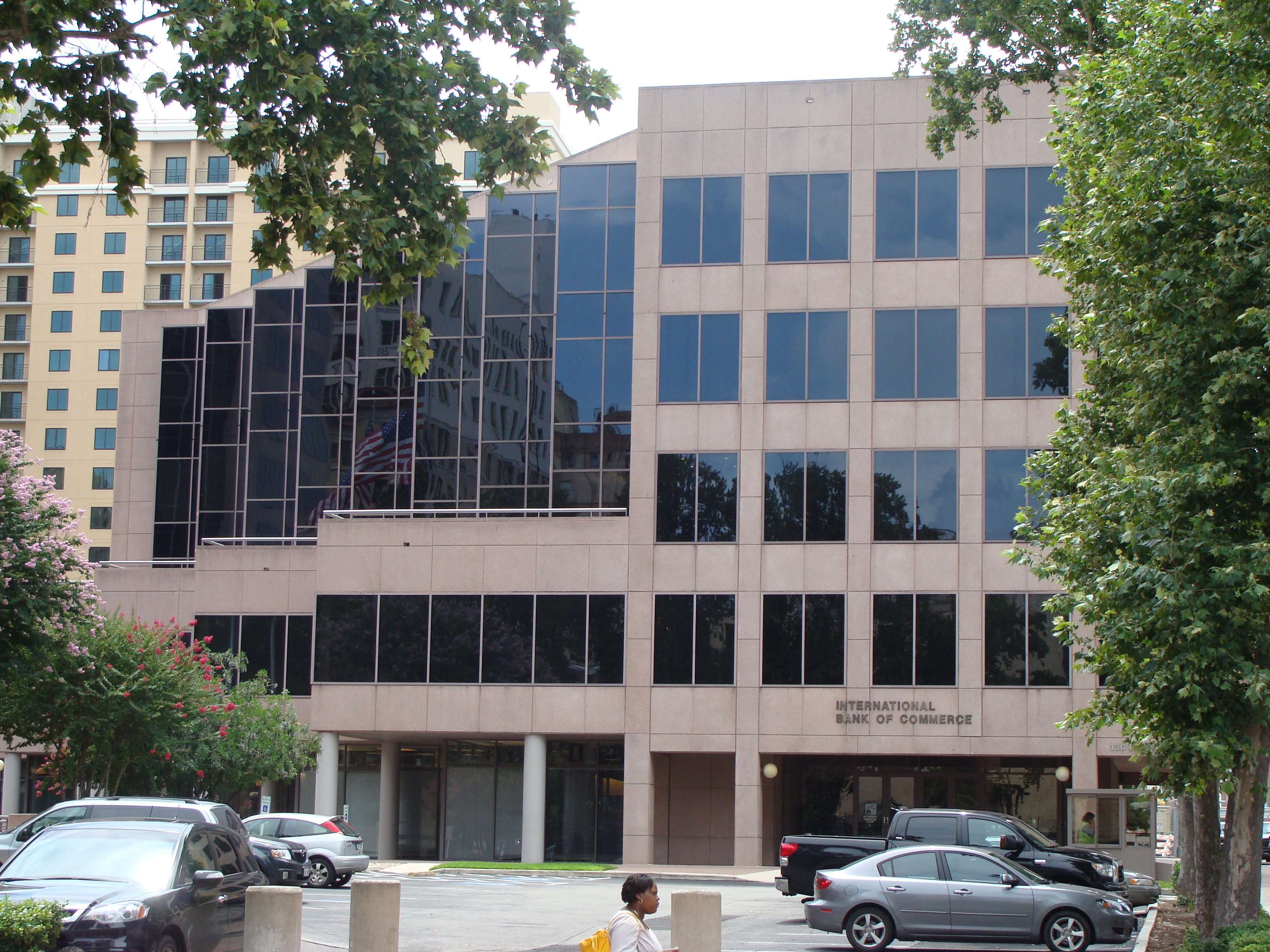 International Bank of Commerce, San Antonio, Downtown branch, TX.